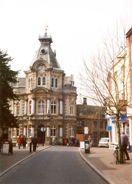 Town Hall, Fore Street, Tiverton Designed by Lloyd of Bristol and built in 1864. Not liked by Pevsner, who disliked mixtures of architectural styles. It is used both by the town council and the Mid-Devon district council.